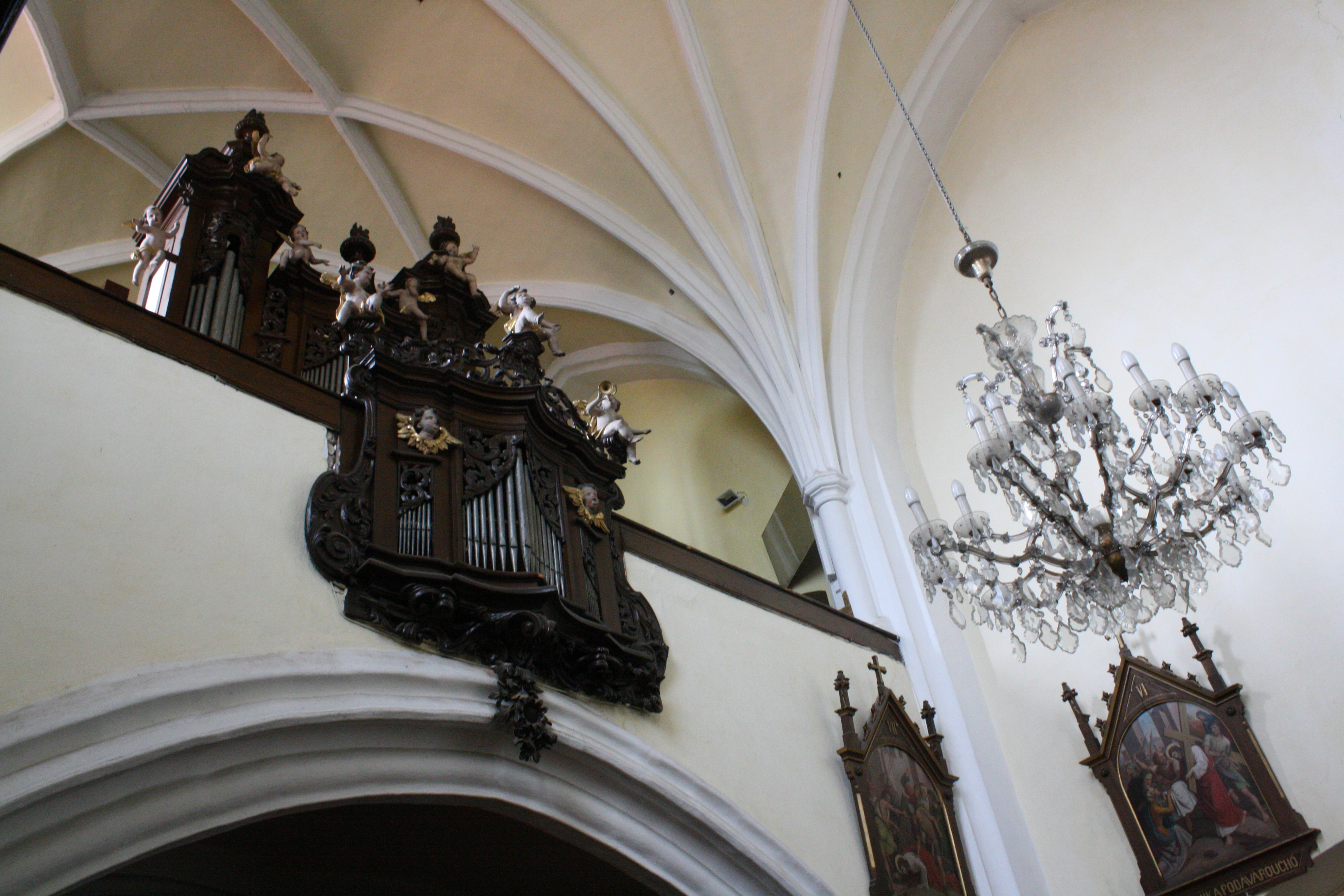 Borovany, Church of the Visitation of Our Lady